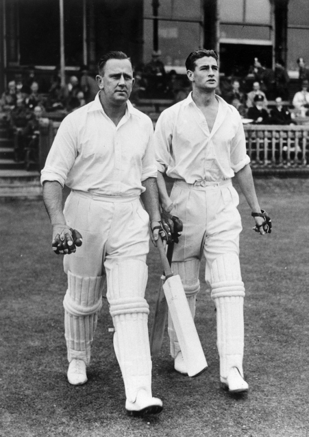 Cec Pepper and Keith Miller walk out to bat